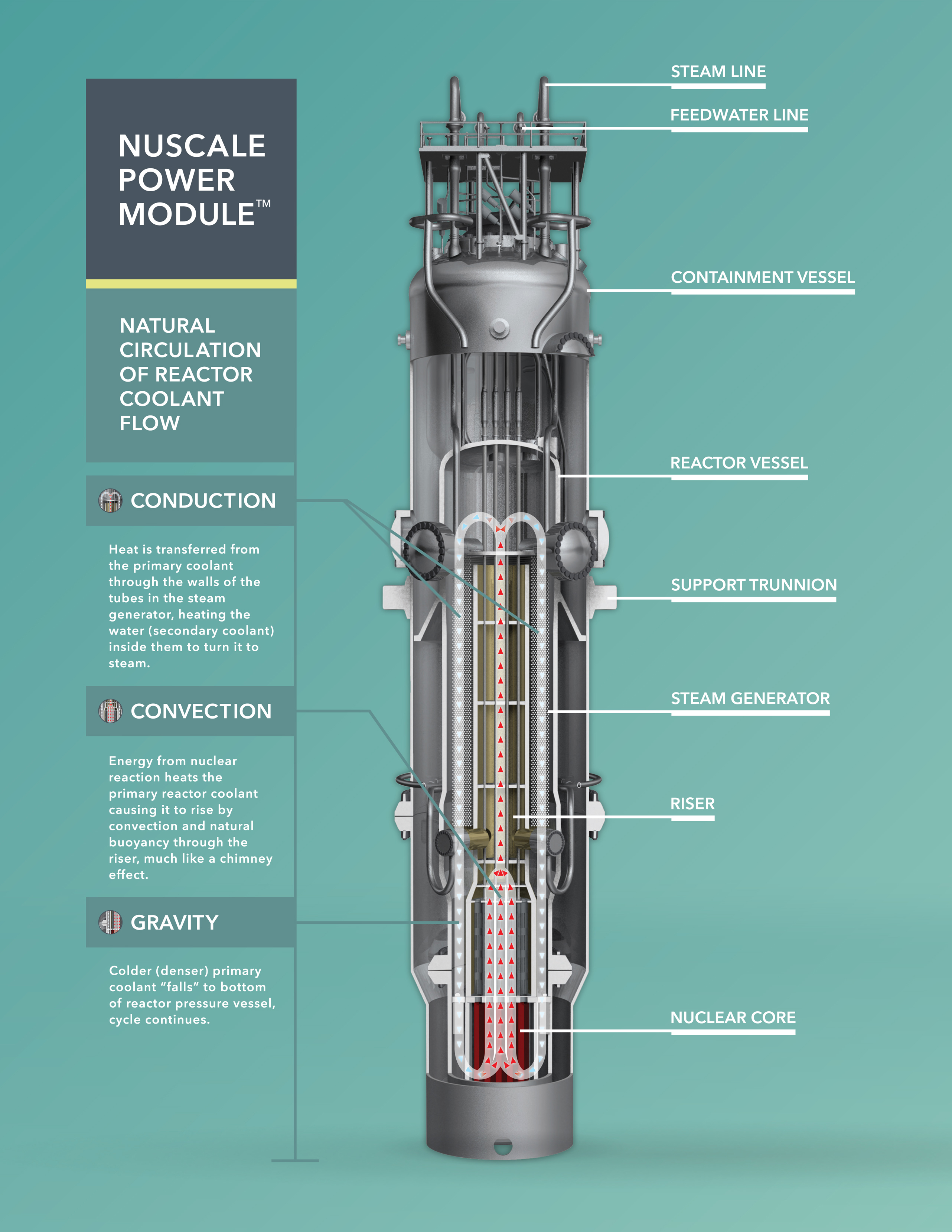 A diagram depicting a NuScale reactor. This is a cropped version of File:Diagram of a NuScale reactor.jpg, to remove the copyright watermark.